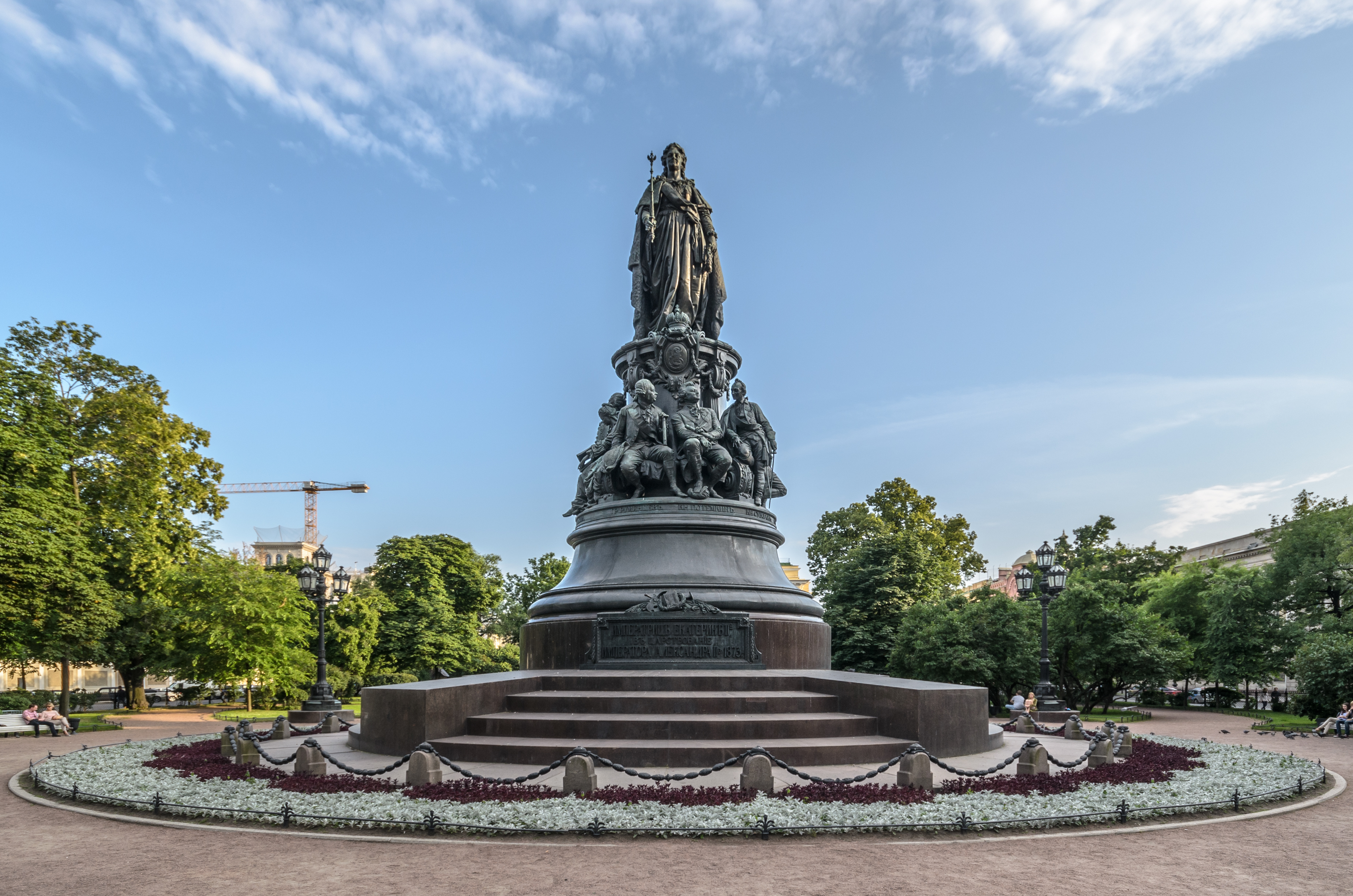 Monument to Catherine II of Russia in Saint Petersburg